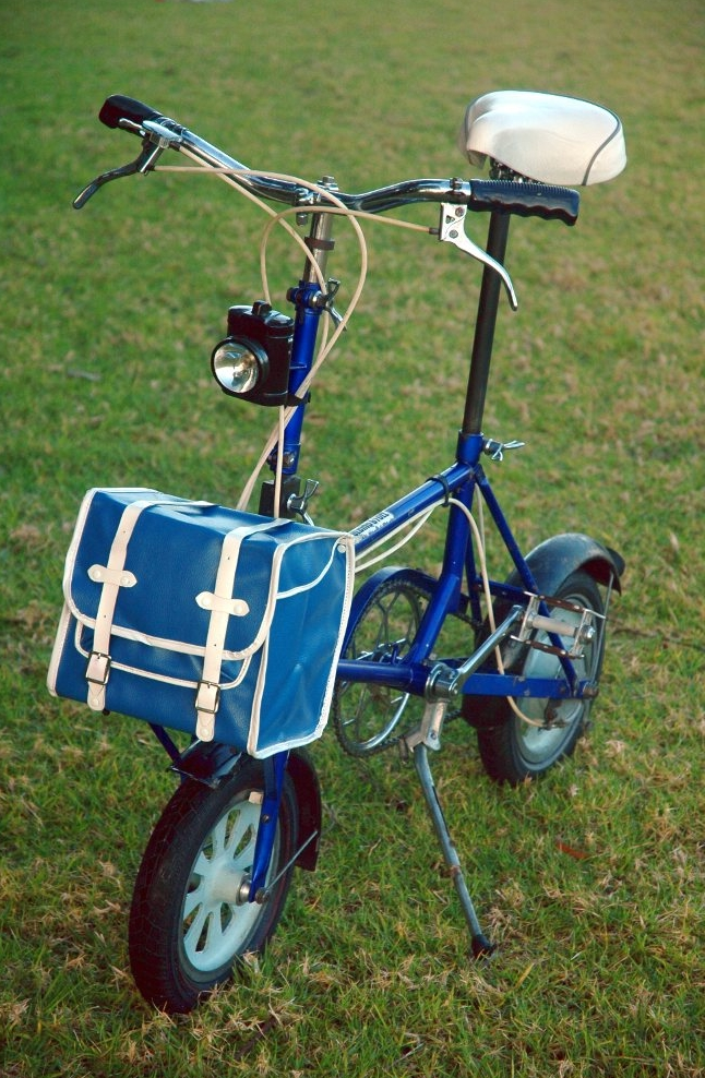 Bootie folding bicycle made in Leeds, Yorkshire 1965 - 73